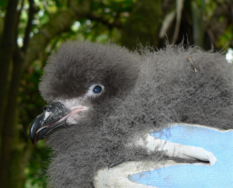 Oi photographed in Early October, Taranga Island. Photo L Mead